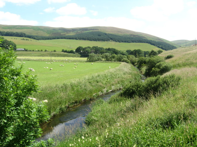 The Tarth Water Heading towards its confluence with Lyne Water.